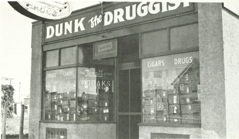 Dunk The Druggist, drug store in Fort Qu'Appelle, Canada